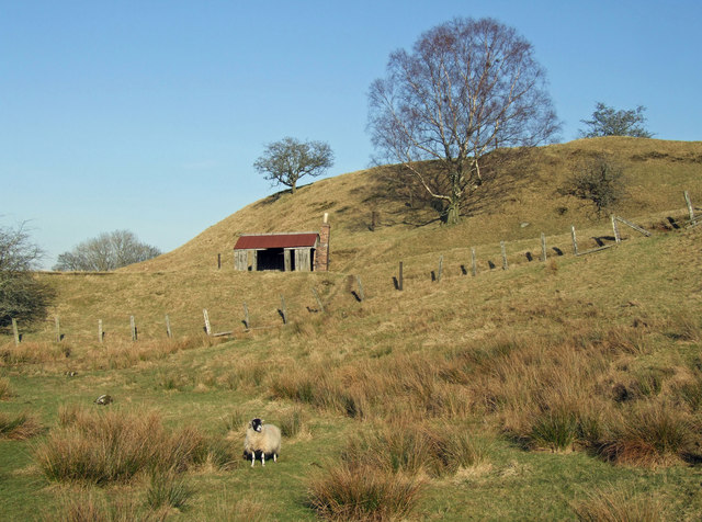 Lineside Hut Derelict lineside hut near the site of Tarset Castle.